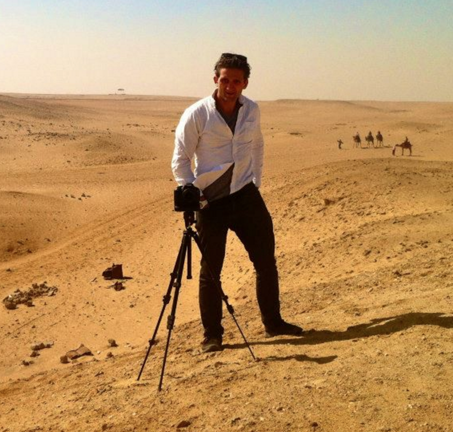 Self-portrait of Casey Neistat standing in front of a camera on a tripod atop a sand dune in the desert with camels in the background. Apparently taken during filming "Make It Count" for Nike.